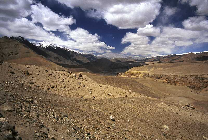 Desert in Ladakh.It is called Moon's desert(月の砂漠).